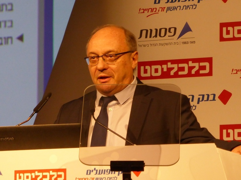 Leo Leiderman in Tel Aviv, 28 December 2016.